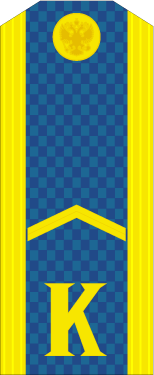 Russian rank insignia (1994-2010), here Kursant (wit the ranc "Gefreiter" OR-2) – shoulder strap (Air Force, Airborne troops) field uniform.